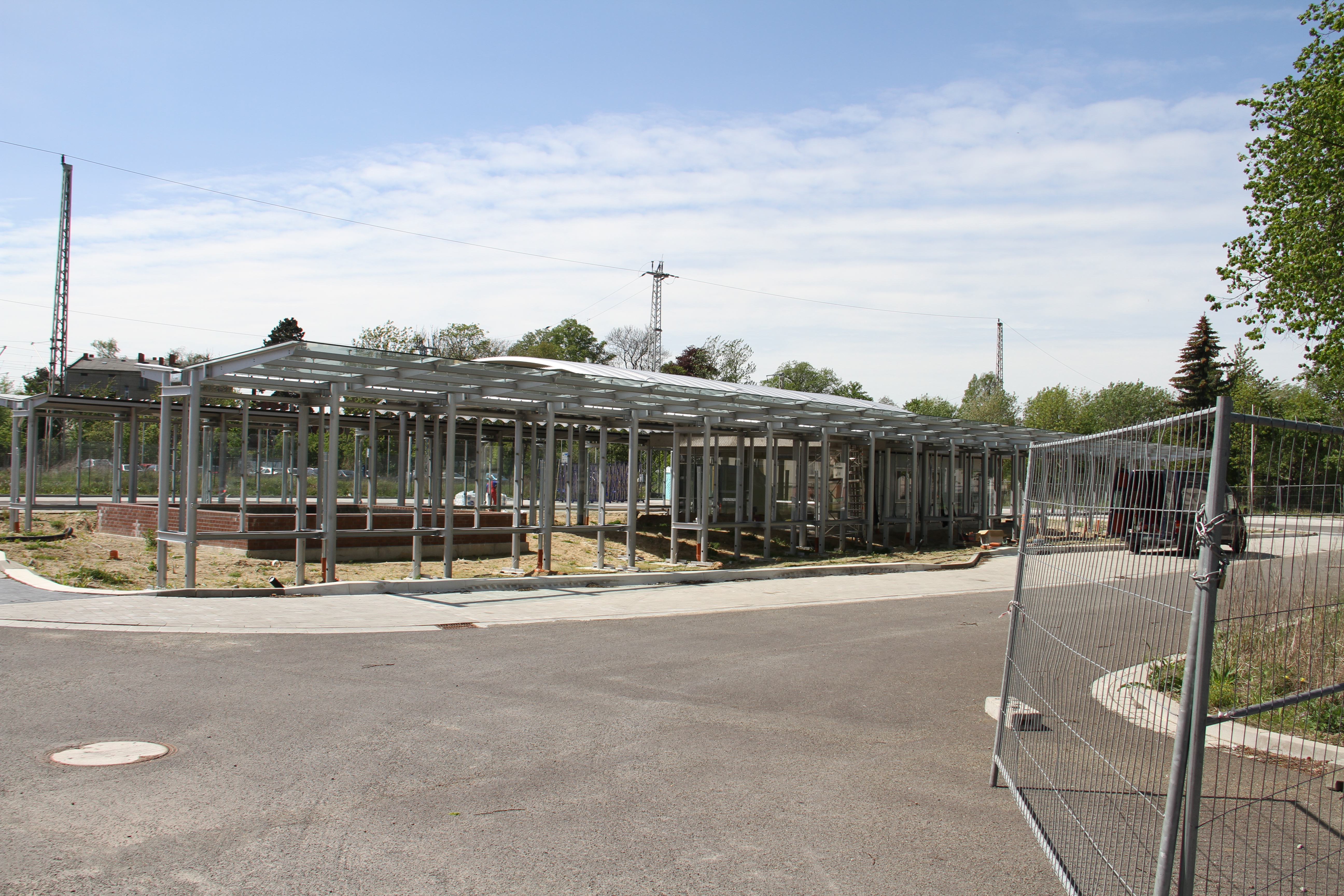 Bahnhof Greifswald (Greifswald main station) in May 2012.